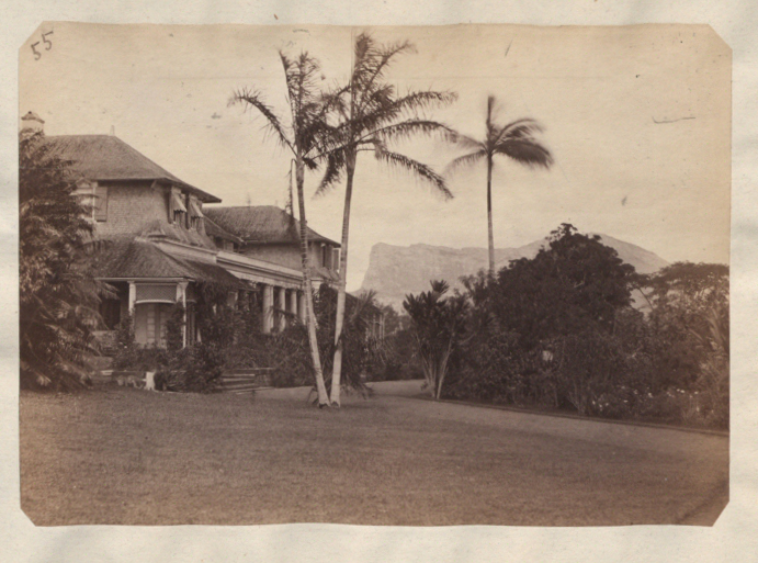 Reduit - Country Residence of Governor. Catalogue Reference: Part of CO 1069/745 This image is part of the Colonial Office photographic collection held at The National Archives. Feel free to share it within the spirit of the Commons